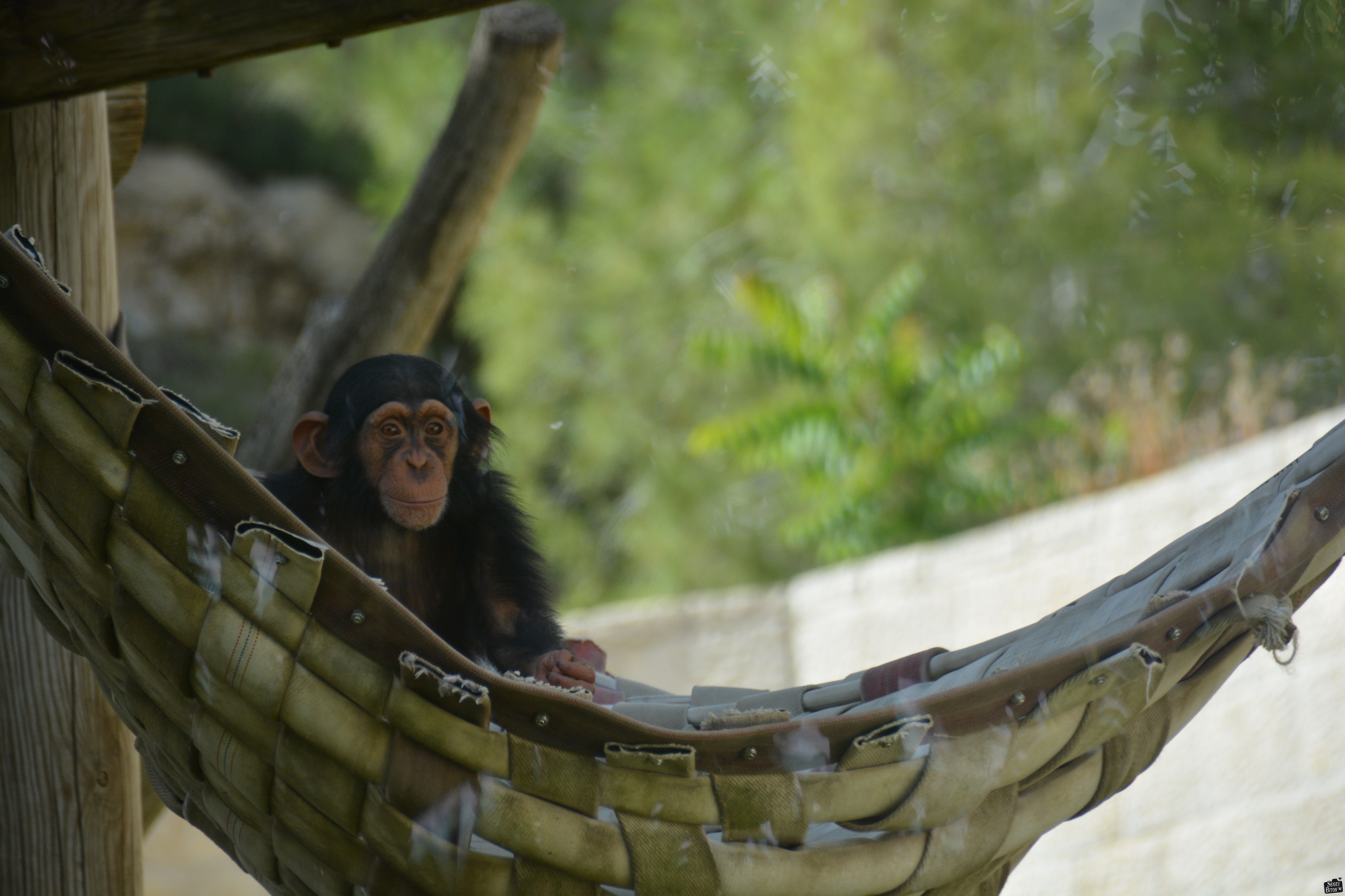 Biblical Zoo in Jerusalem